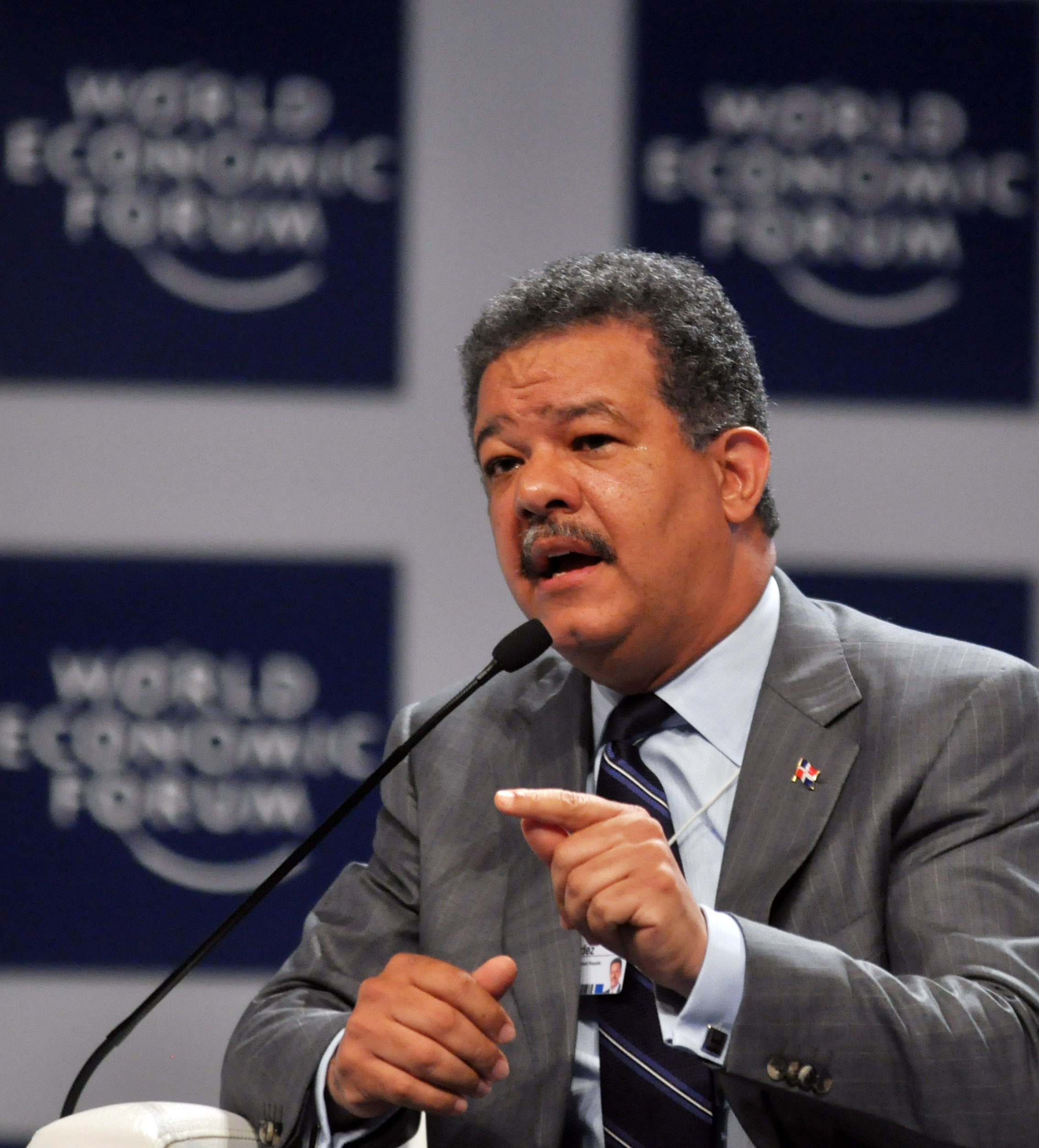 Leonel Fernández, President of the Dominican Republic, in the Presidents Plenary at the World Economic Forum on Latin America 2010 in Cartagena Convention Center from 6 - 8 April.